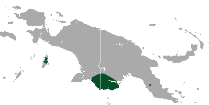 Wallace's Dasyure (Myoictis wallacii) range